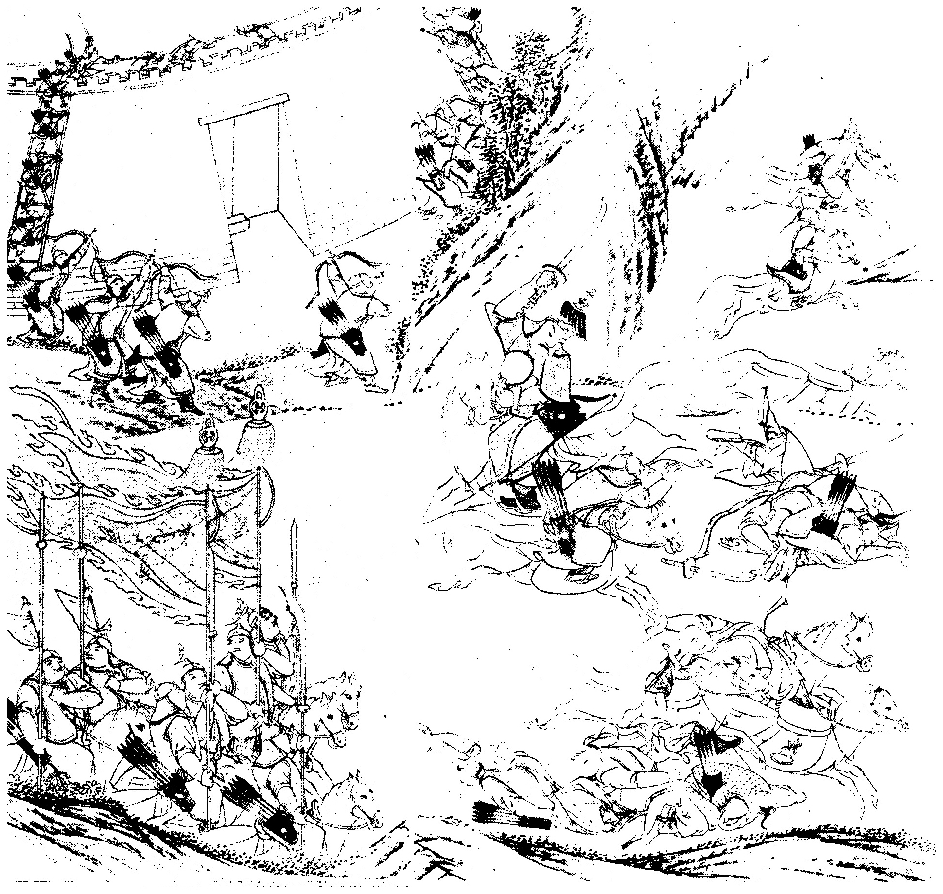 弩尔哈齐兆佳城大戰